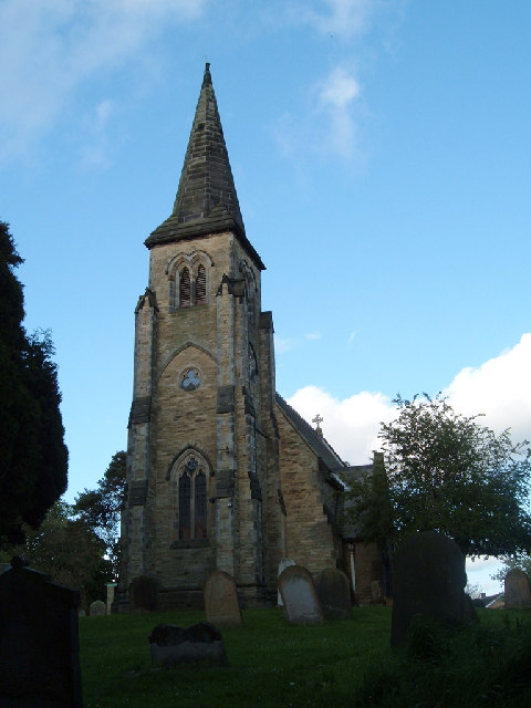 Strensall Church. On a very cold evening in MAY